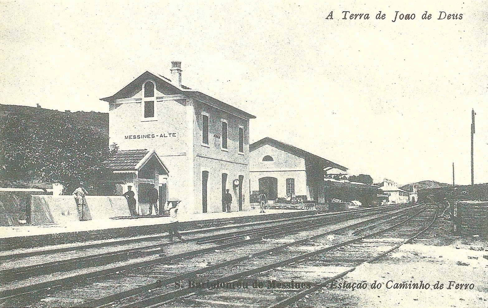 Postcard of the 20s showing the Messines-Alte Railway Station, in Portugal. The description says " The birthplace of Joao de Deus", a famous portuguese poet and pedagogue.